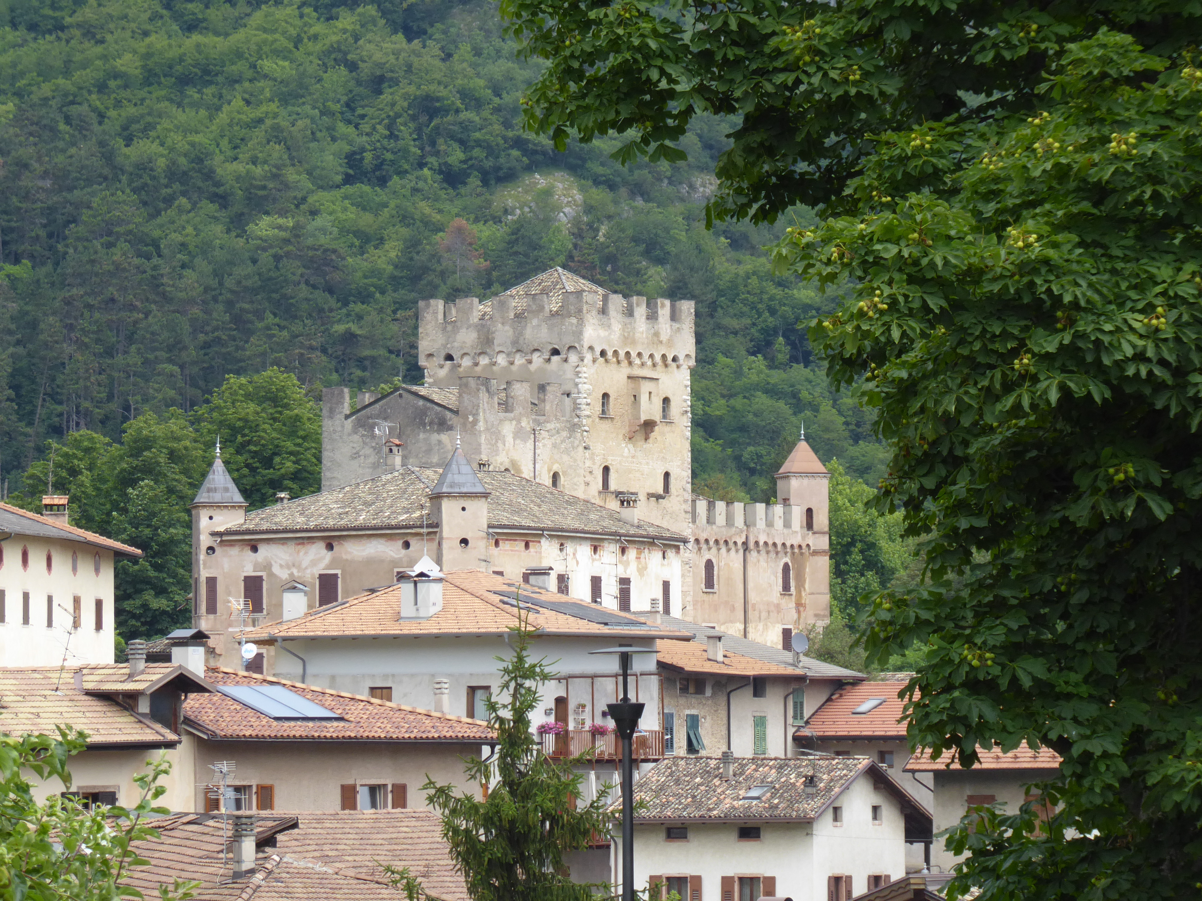 Terlago (Vallelaghi, Trentino, Italy) - Castel Terlago